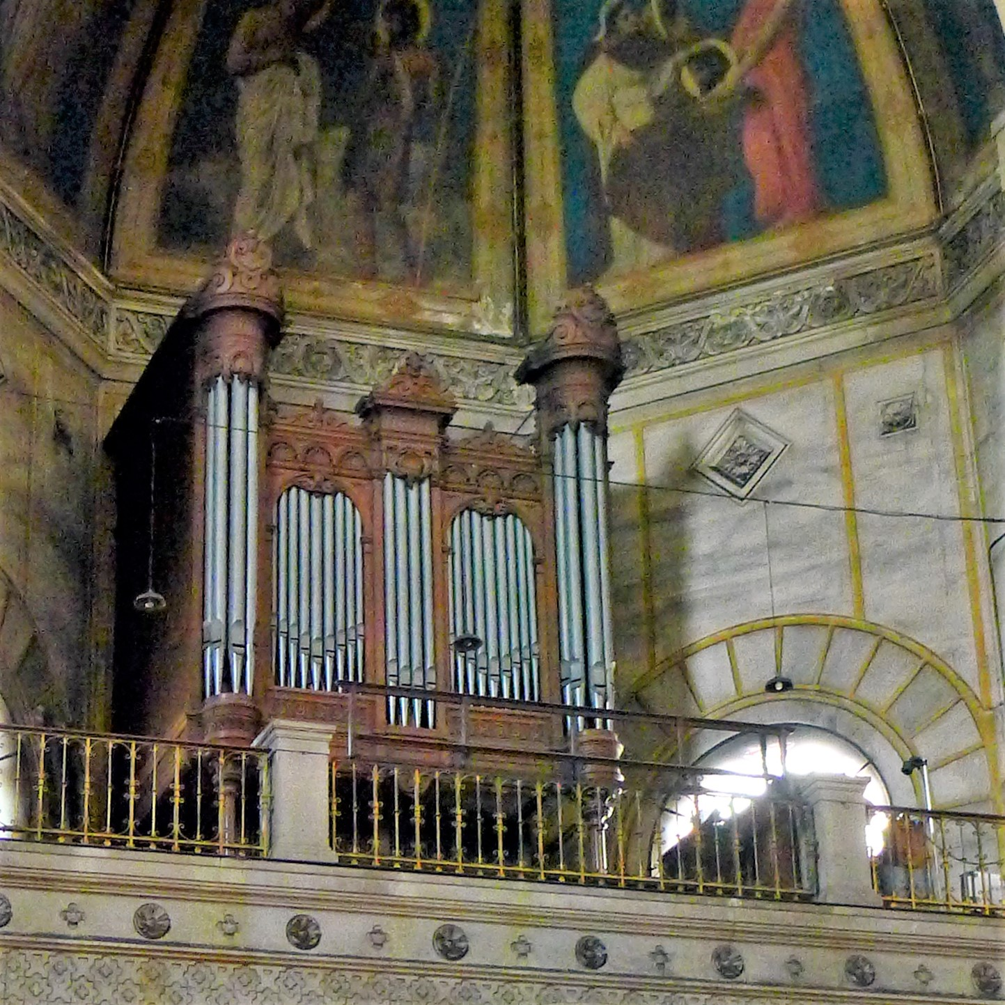 Saint-Augustin church - Paris